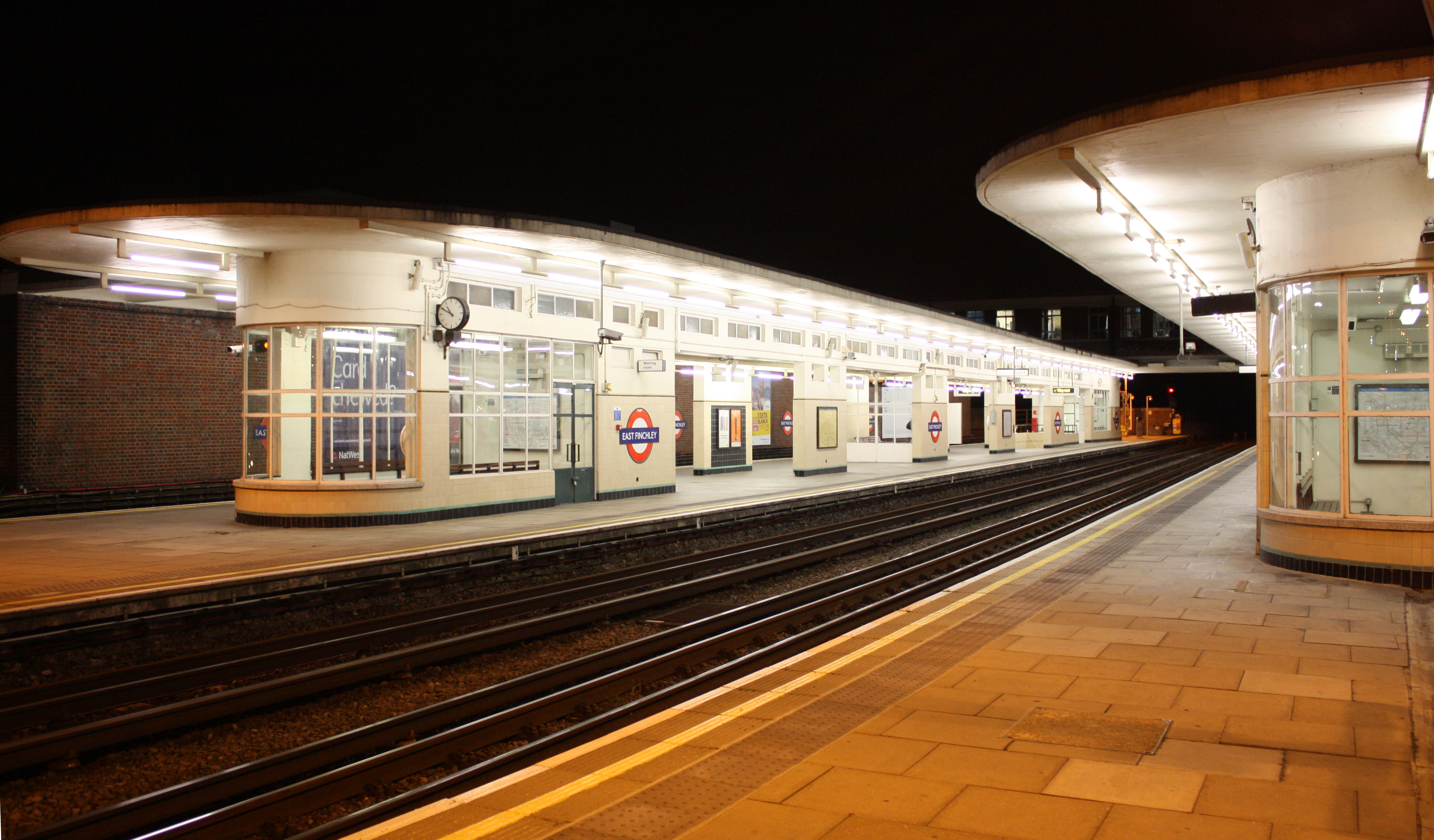 East Finchley Tube Station by night. London.